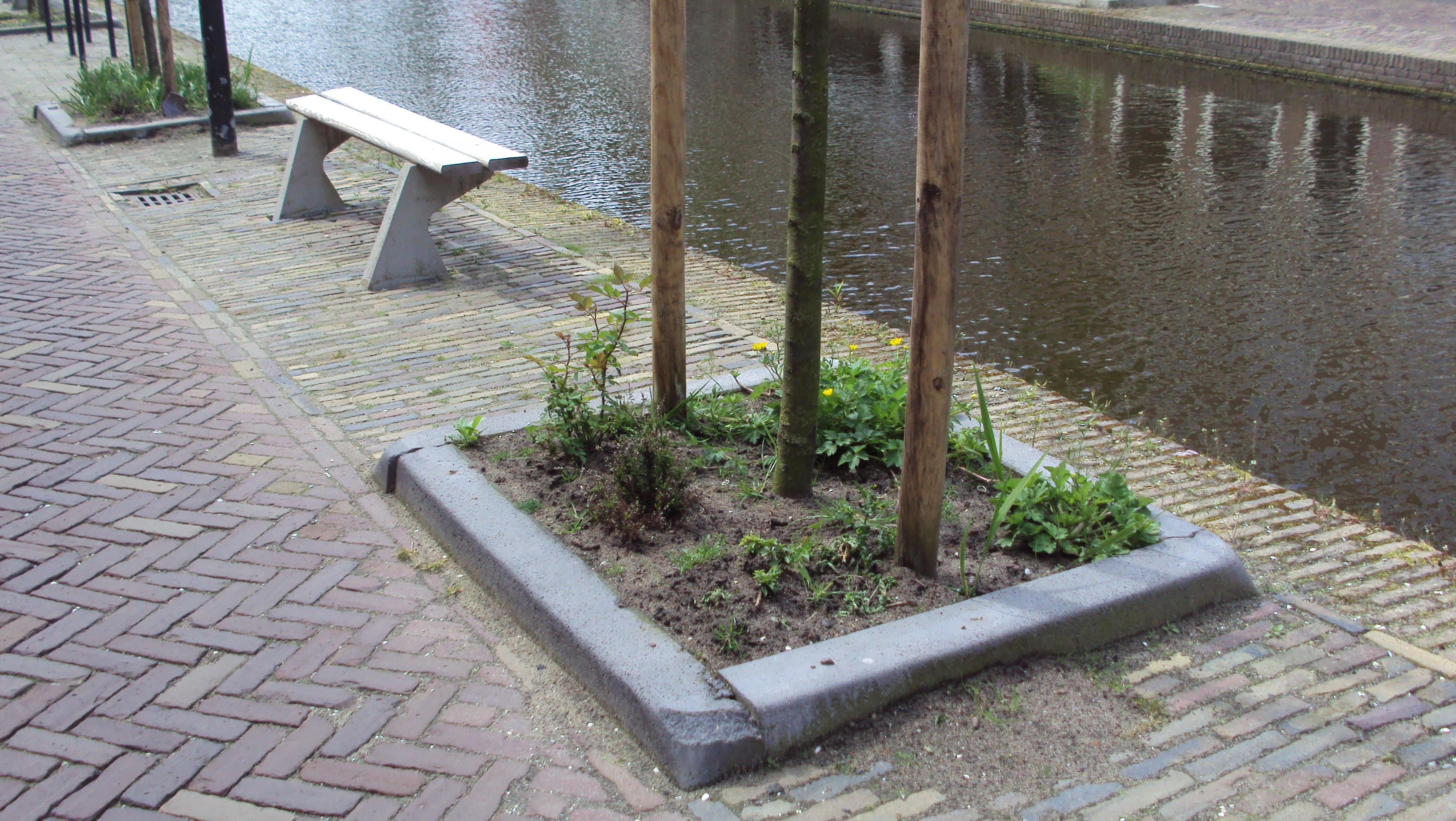 Tree base used for small plants.